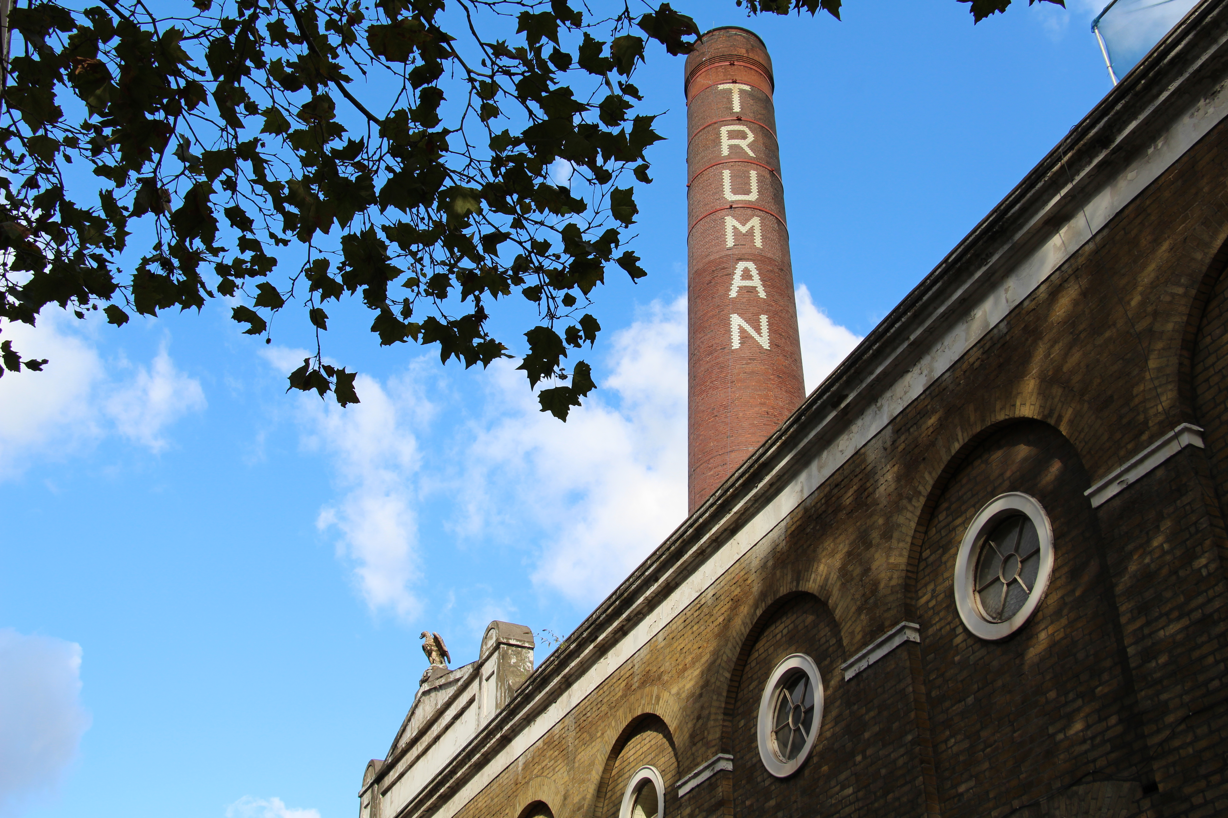 Brick Lane The Old Truman Brewery, East London's revolutionary arts and media quarter, is home to a hive of creative businesses as well as exclusively independent shops, galleries, markets, bars and restaurants. For over twenty years the Old Truman Brewery has been regenerating its ten acres of vacant and derelict buildings into spectacular office, retail, leisure and event spaces.